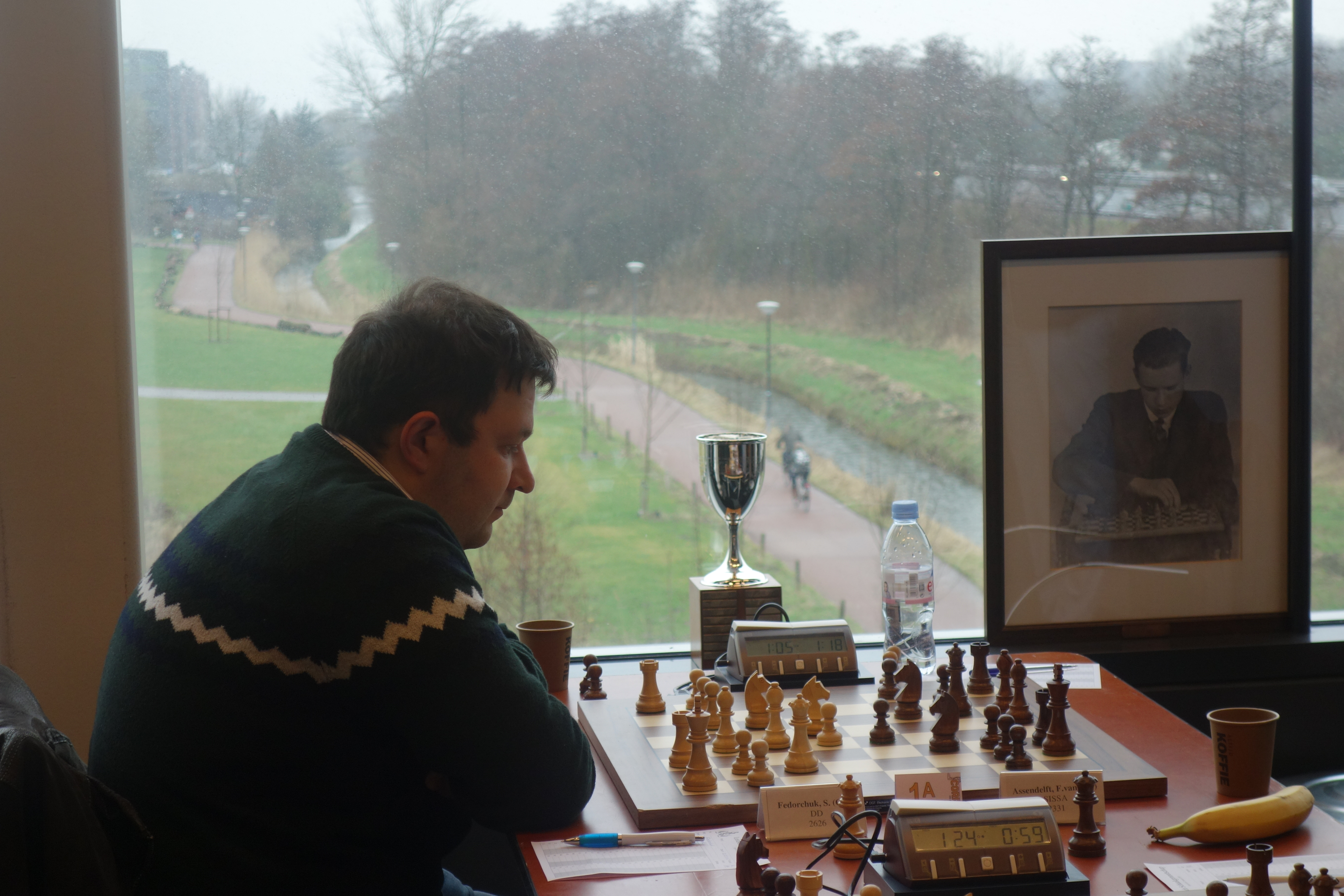 Sergey Fedorchuk at Noteboom Chess Tournament (Leiden, the Netherlands), 2017